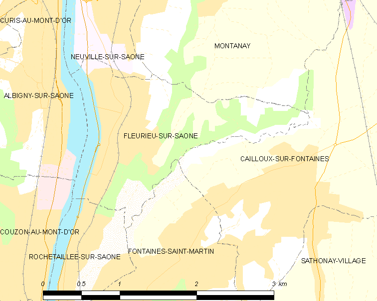 Map of French municipality